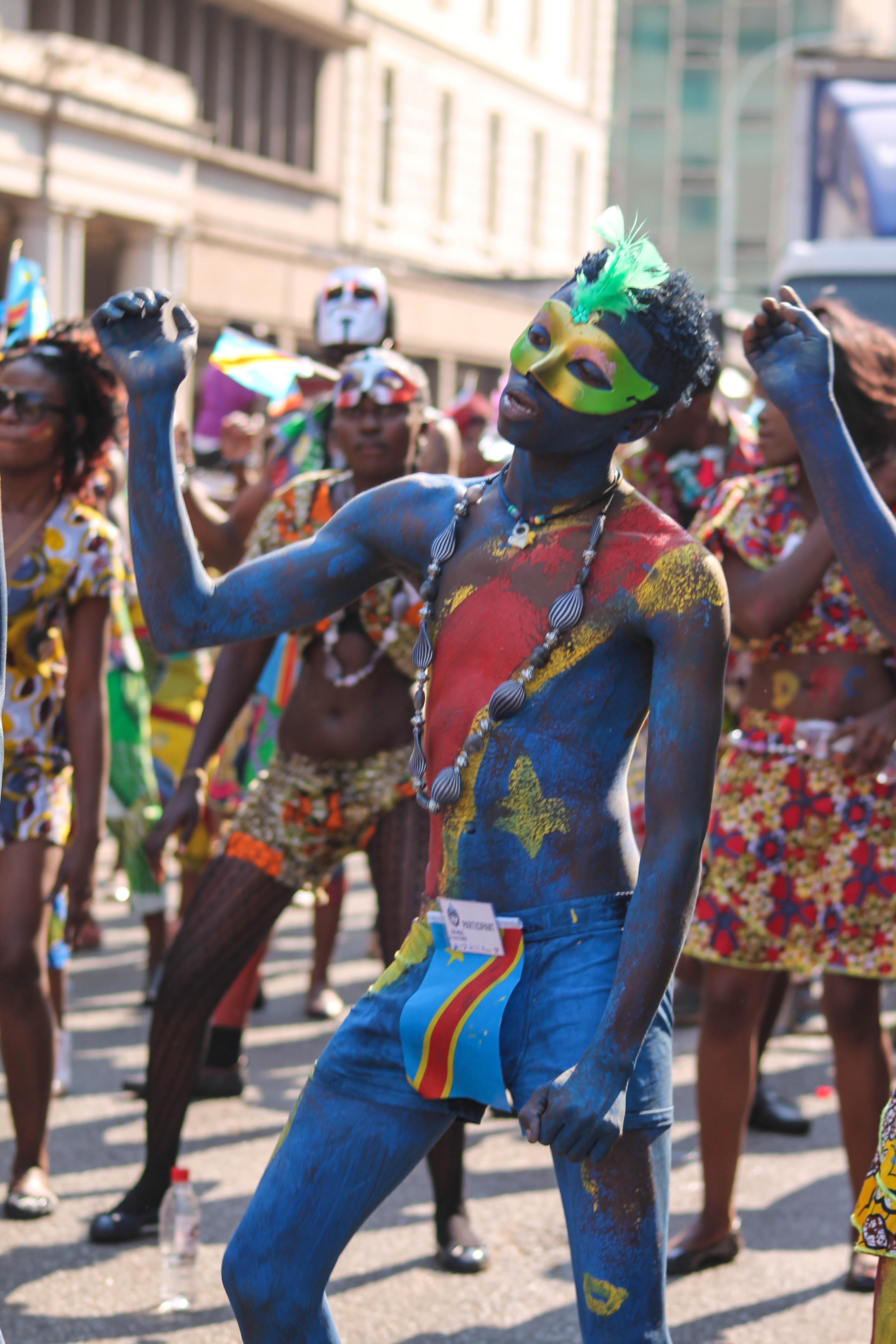 Congolese Dancer at the Harare Carnival This is an image of music and dance from Zimbabwe